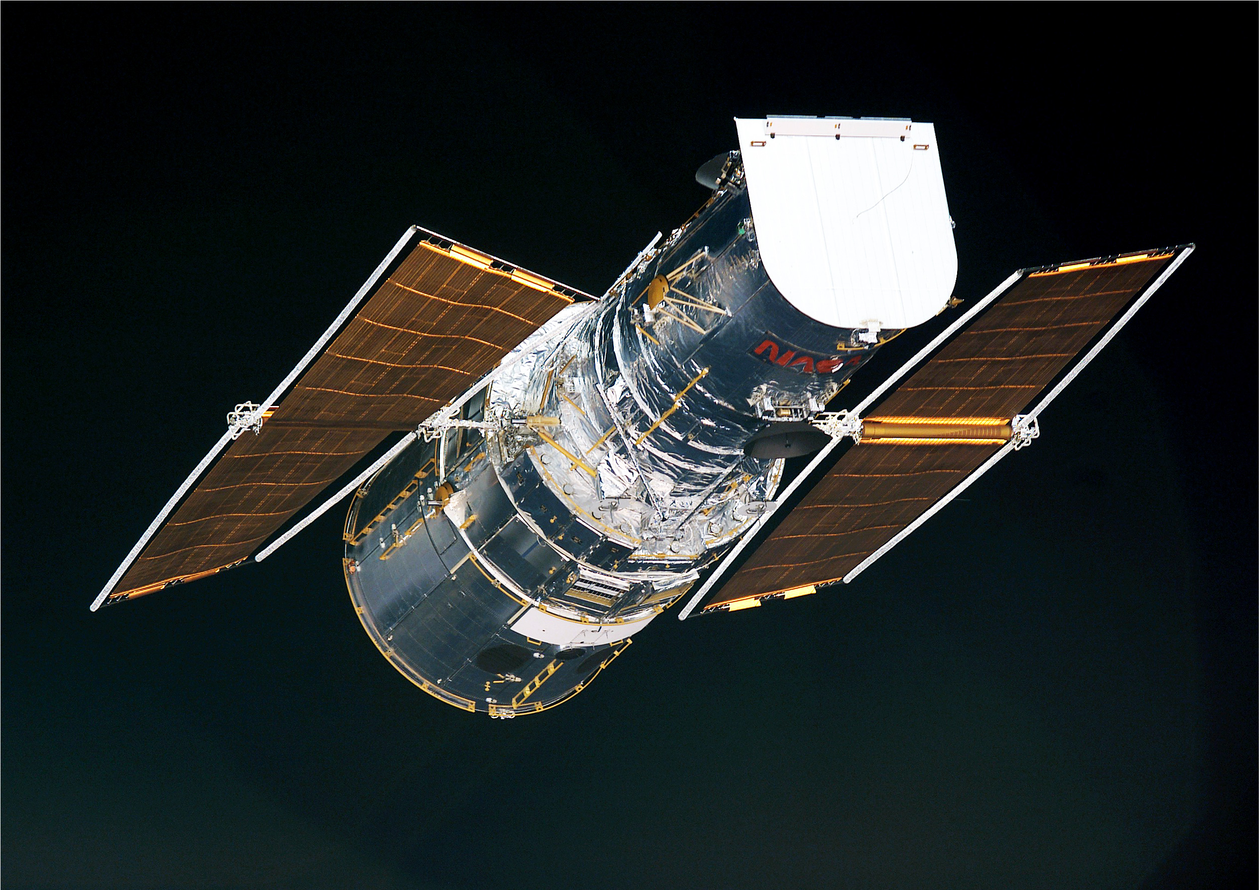 This image shows an overview of the two ESA solar arrays just before they were rolled up during Servicing Mission 3B. New rigid arrays were installed. The "living", flexible structures of the European built arrays are easily seen. These solar panels have by far exceeded the expectations, both in terms of lifetime (65% longer life than specified) and in terms of performance (10% more output power than the expected).